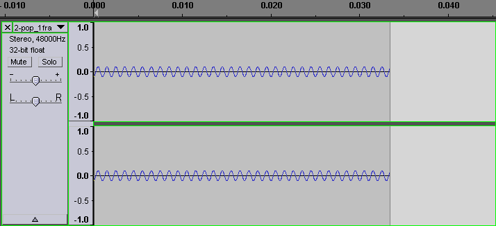 I, David Sutherland, created this waveform and took this screen shot using Audacity, a GPL Version 2, program.